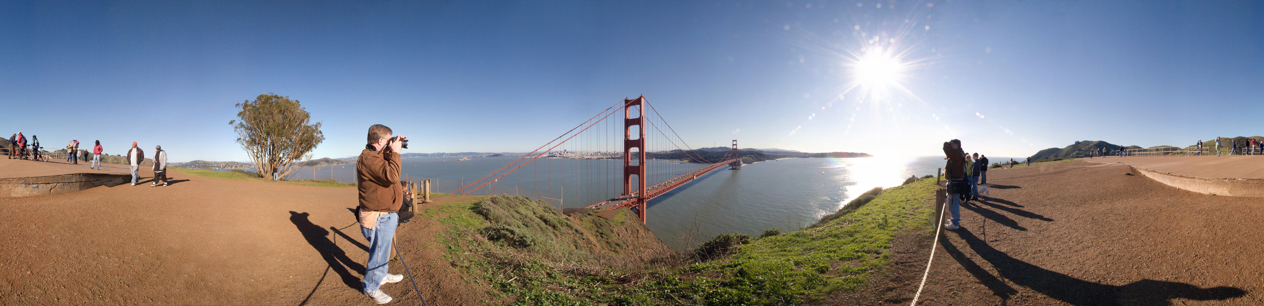 Panorama of the Golden Gate Bridge and the City of San Francisco as seen from the Marin Headlands.